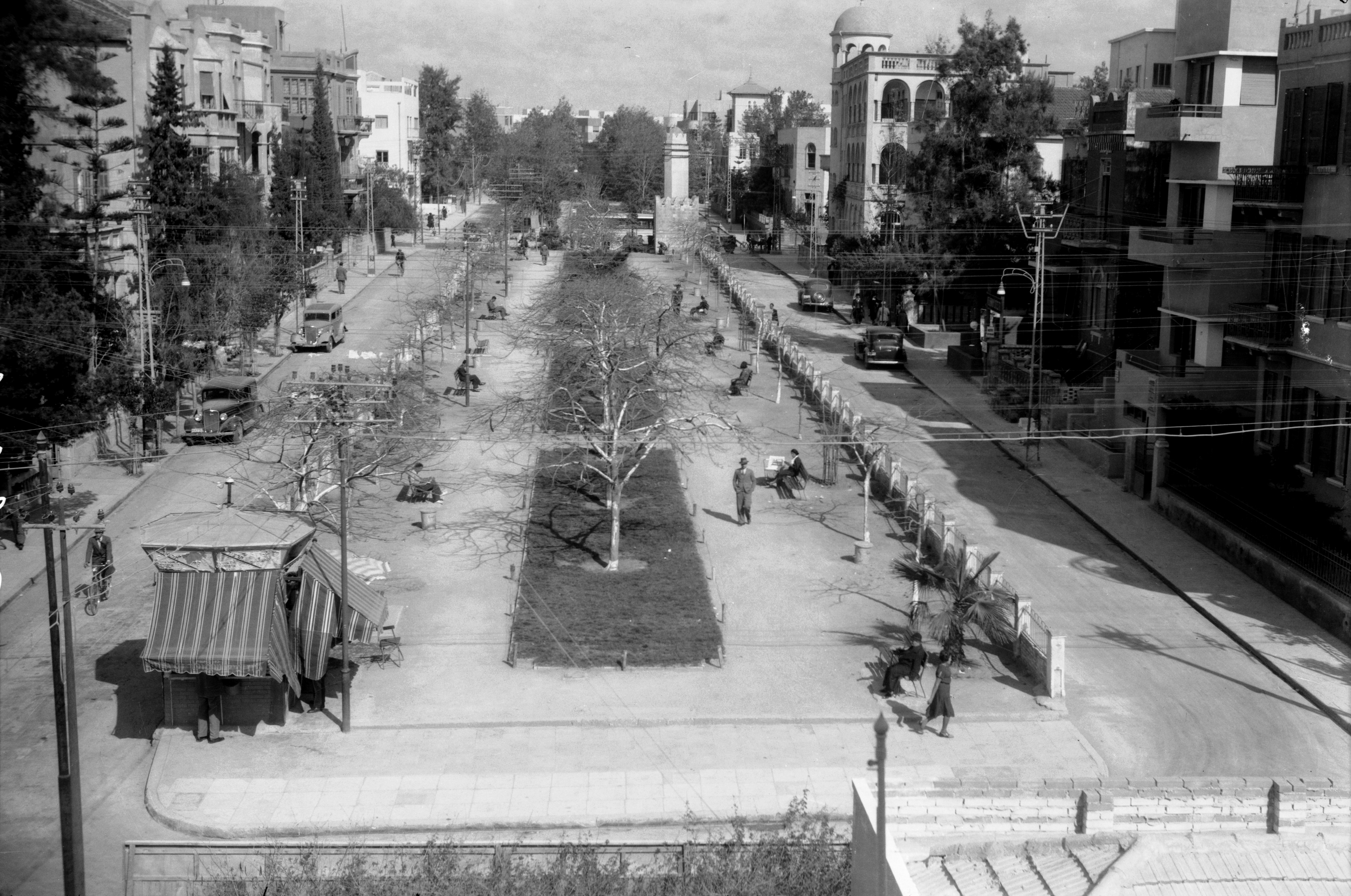 Tel Aviv. View east on on Park Aveenue, from Rothchild Avenue — in the 1940s, in the British Mandate of Palestine.